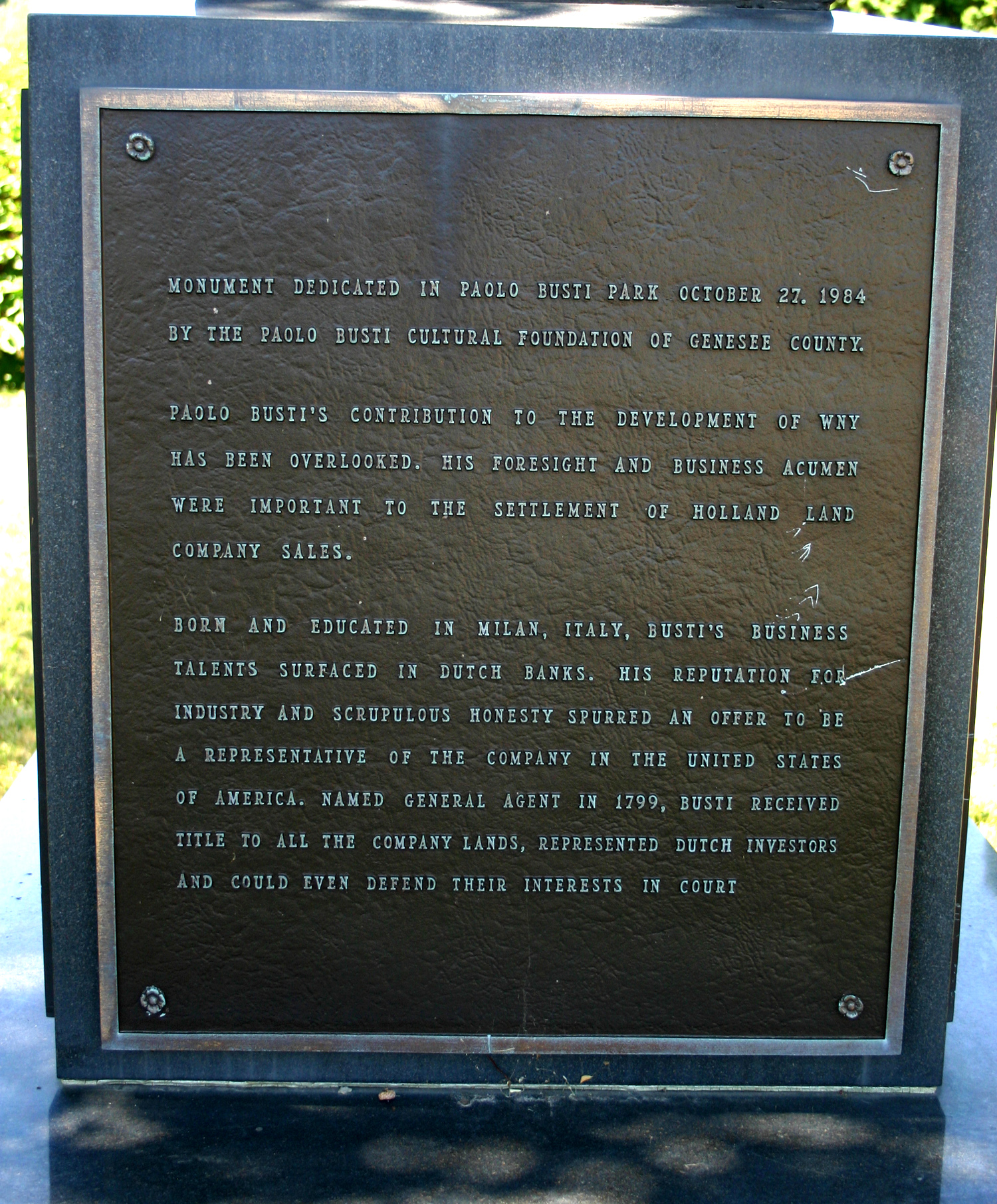 Plaque to honor Paolo Busti at the Holland Land Office Museum, Batavia, New York,Placed in his honor by Batavia's Italian-American citizens. )